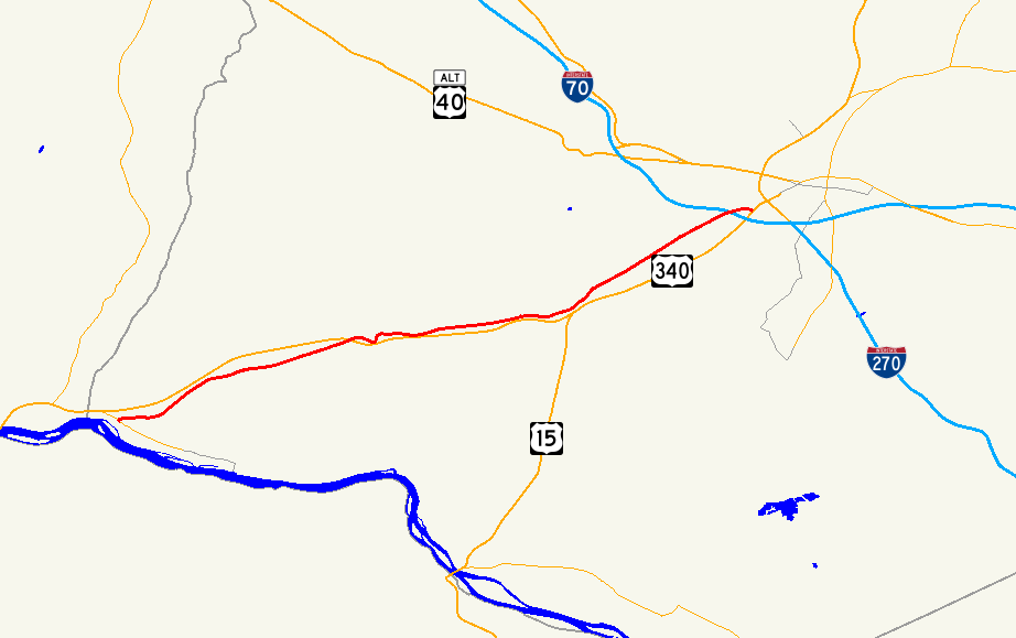 Map of Maryland Route 180